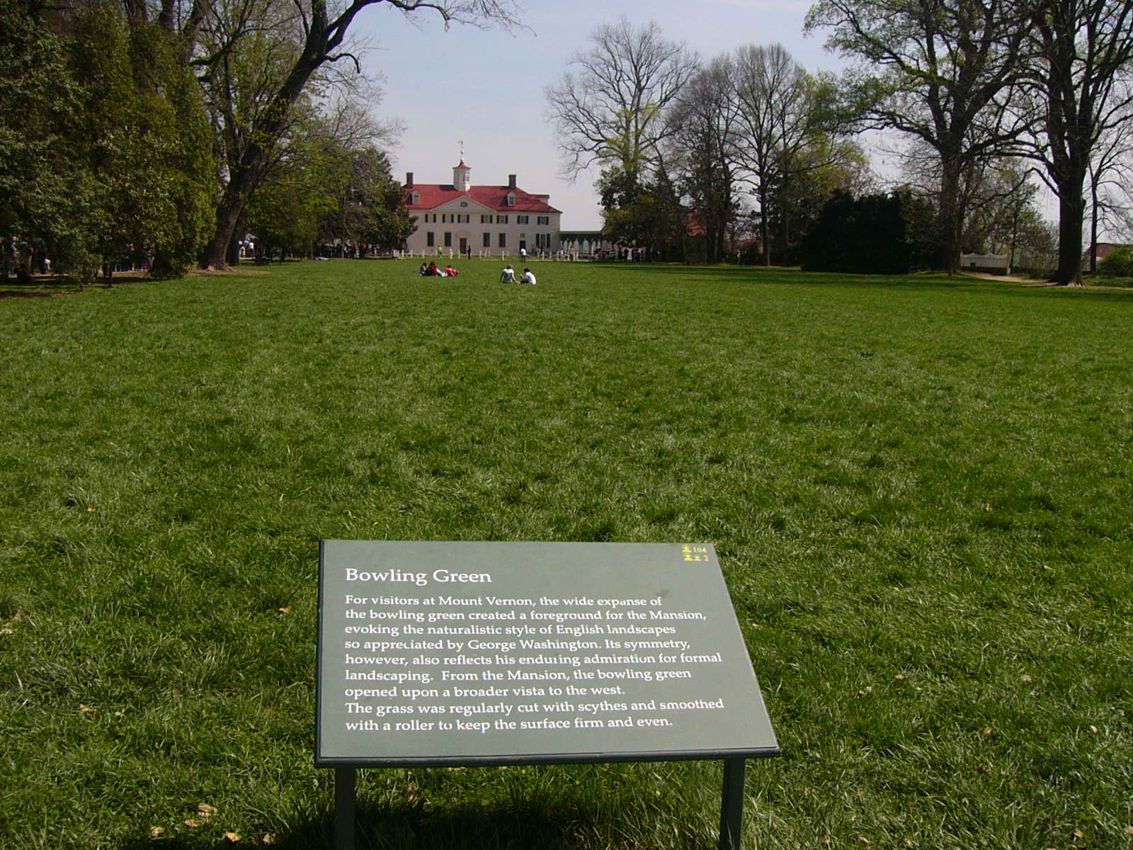 Bowling Green west of Mt. Vernon, home of George Washington.